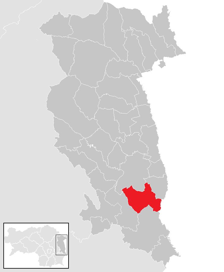 district Hartberg-Fürstenfeld